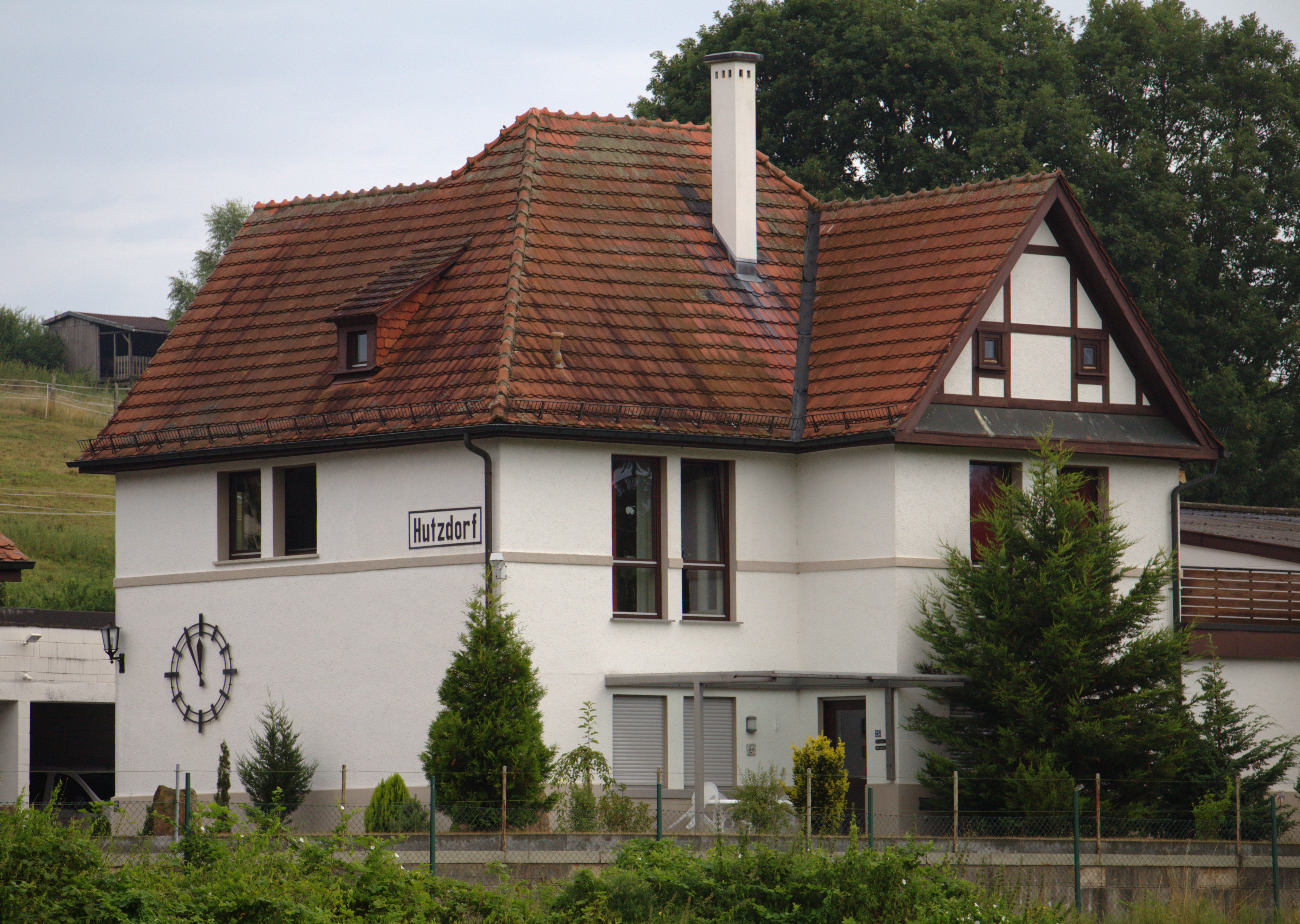 Former train station building in Schlitz-Hutzdorf, Hesse, Germany.